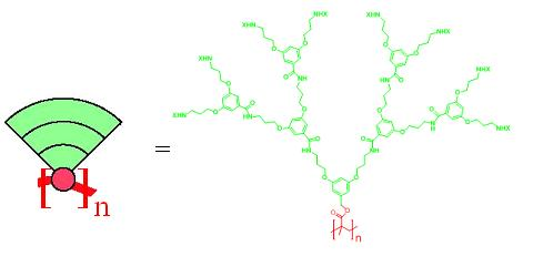 denpol cartoon structure and real structure